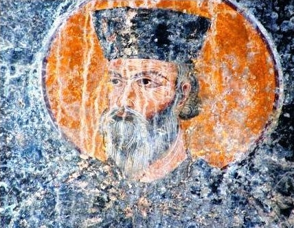 David VI of Georgia, a fresco from the Gelati monastery.